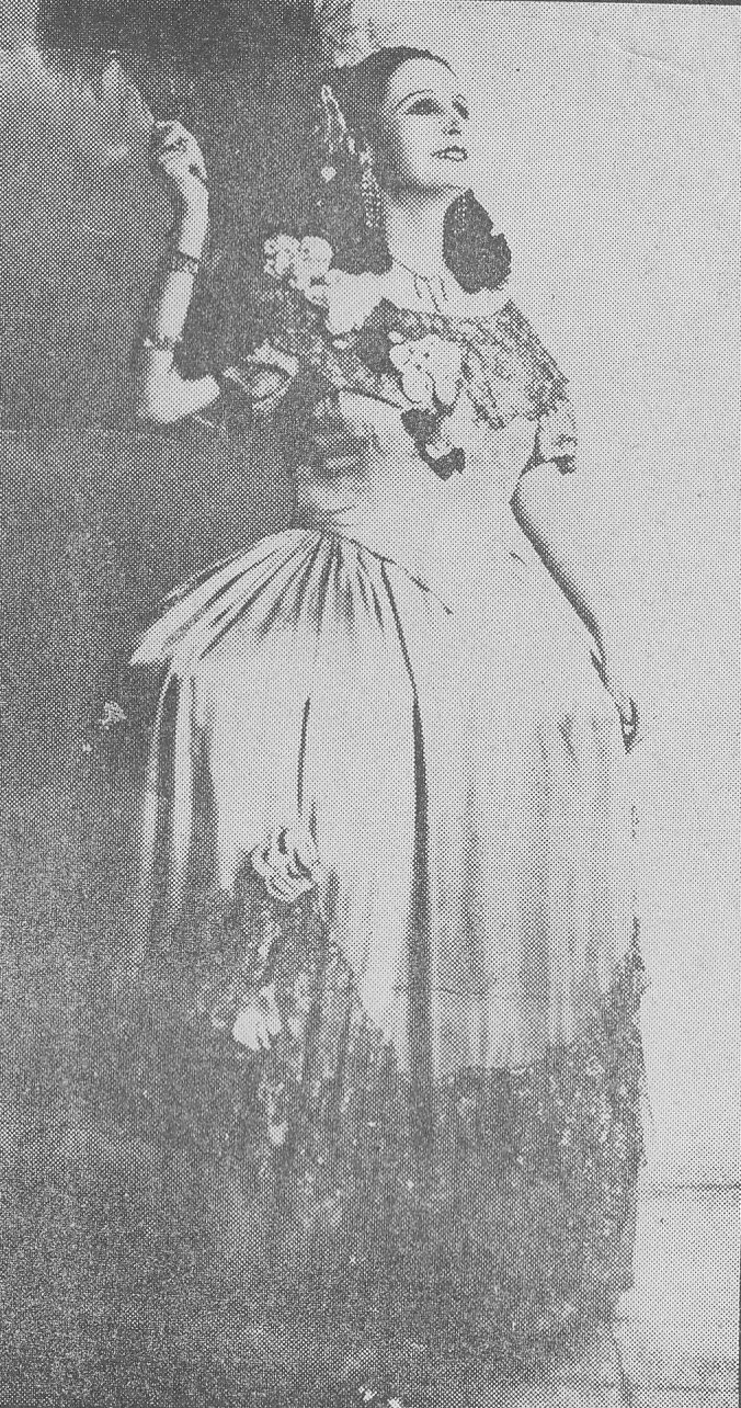 Italian soprano, Clara Frediani (1908-1982)